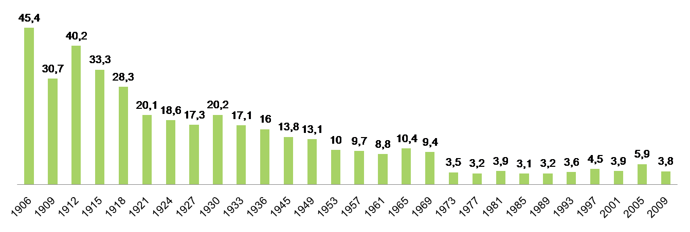 Electoral results of the Norwegian Liberal Party since 1906.